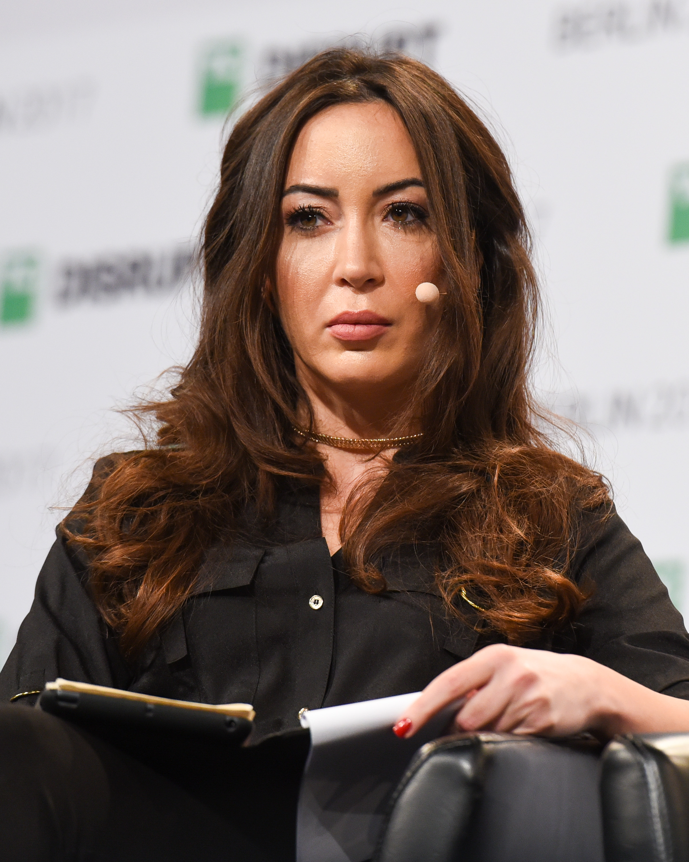 BERLIN, GERMANY - DECEMBER 05: Angel Labs Founder Tugce Ergul talks at TechCrunch Disrupt Berlin 2017 at Arena Berlin on December 5, 2017 in (Photo by Noam Galai/Getty Images for TechCrunch )